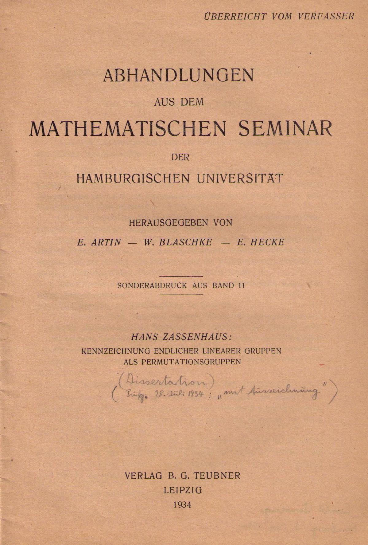 Hans Zassenhaus dissertation: title page of journal's special print